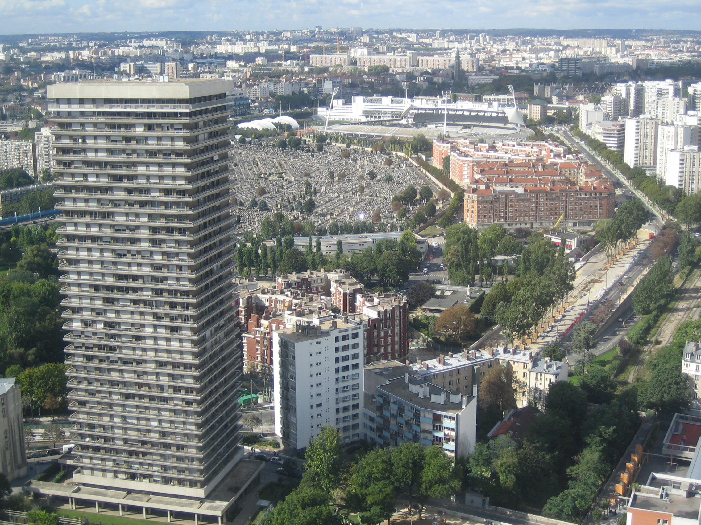 Boulevard Kellermann, Paris, XIIIe arrondissement. You may see on this picture: tour Chambord, cimetière de Gentilly, stade Charléty.